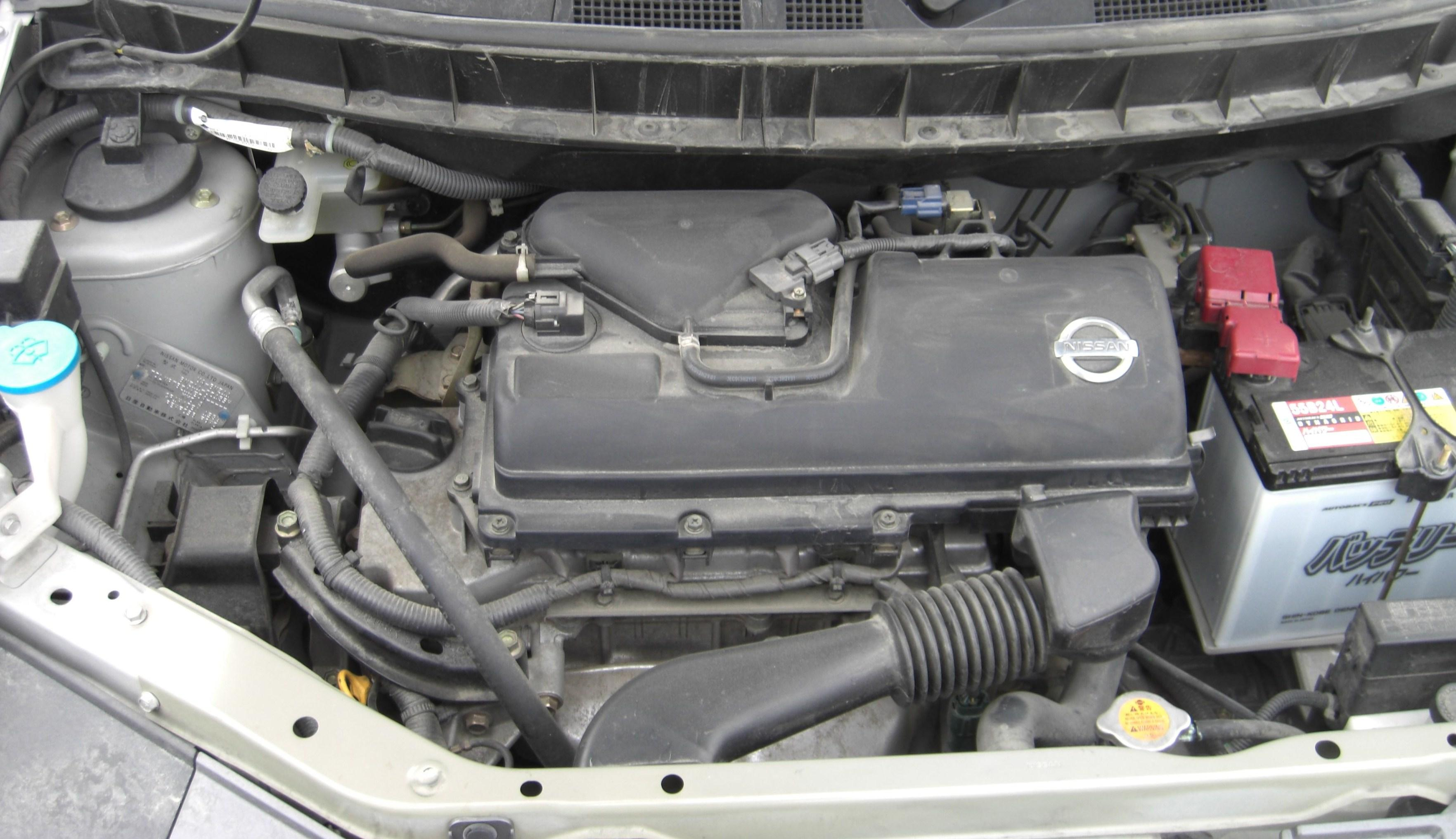 NISSAN CR14DE (NISSAN cube)